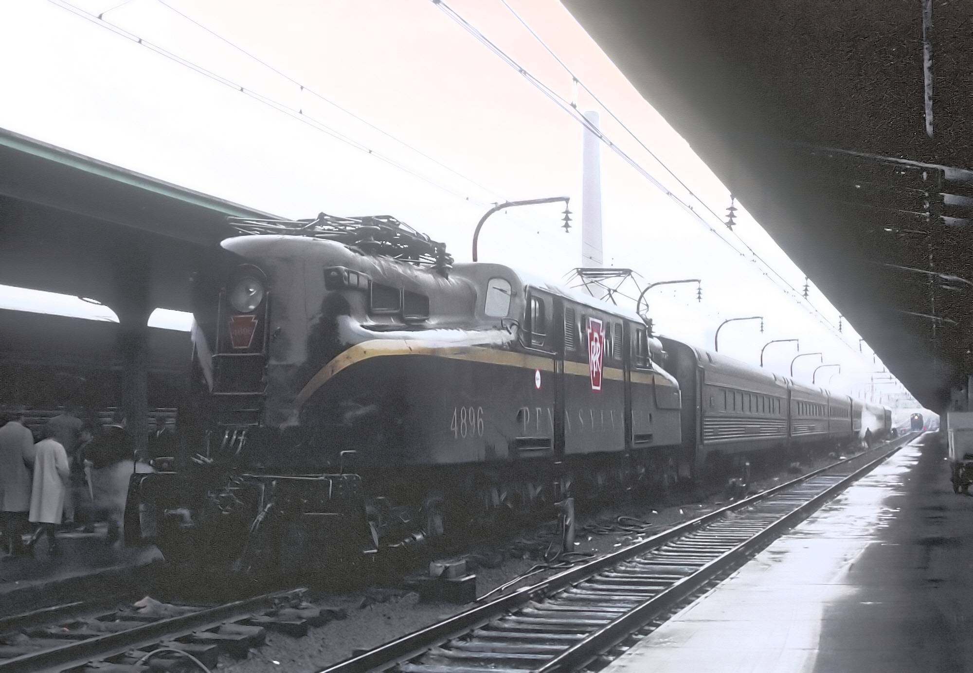 A Roger Puta Photograph